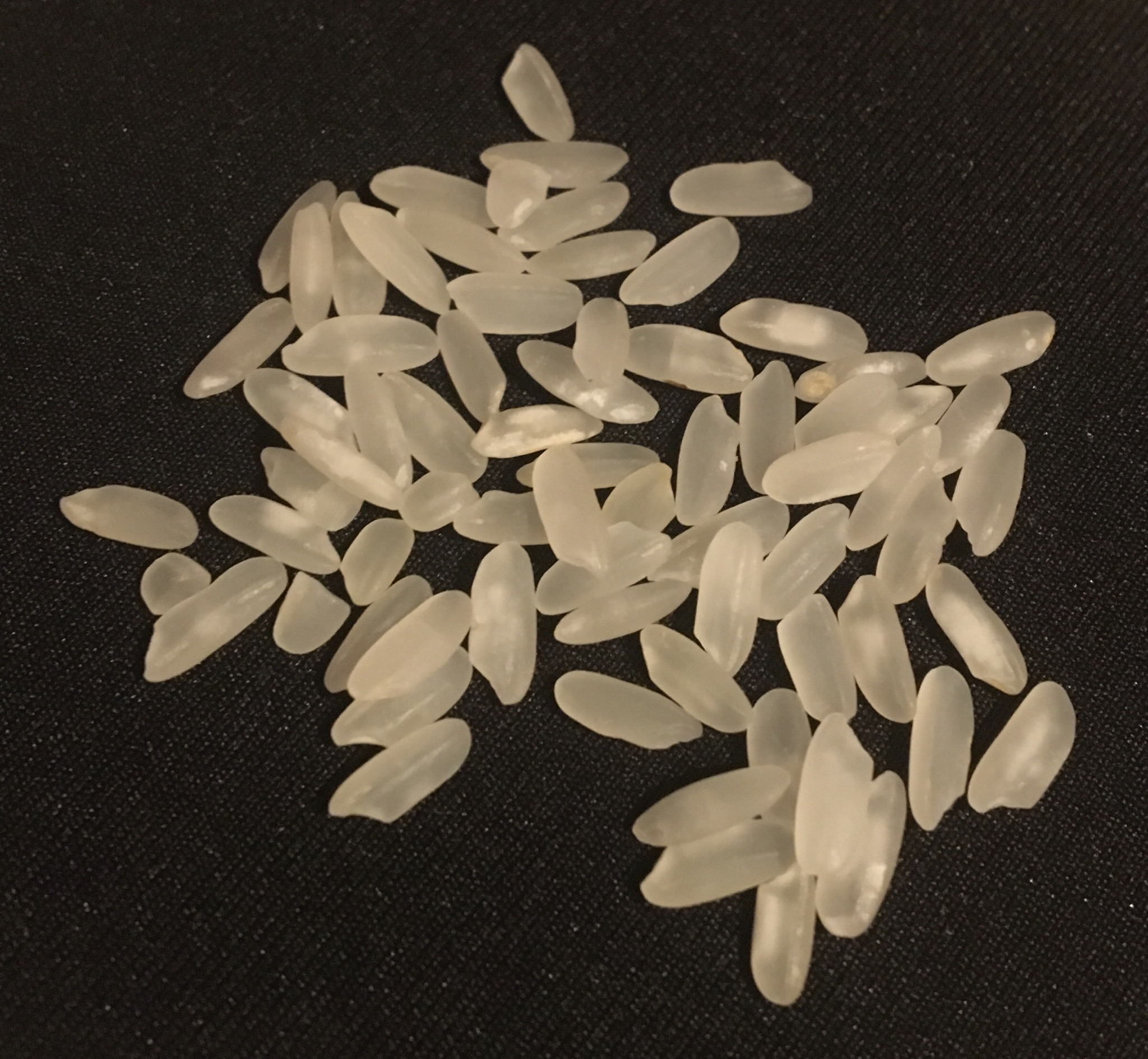 Grains of Baldo, an Italian rice variety commonly grown and eaten in Turkey.